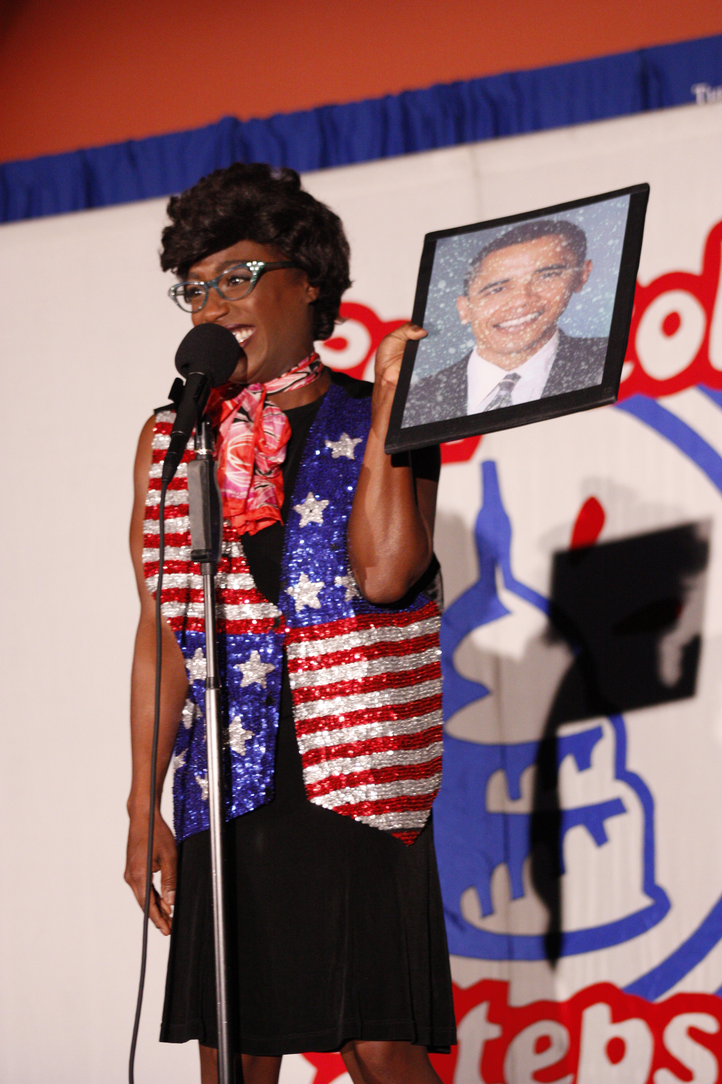 The Capitol Steps Perform at CUA Photo by Ryan J. Reilly / The Tower